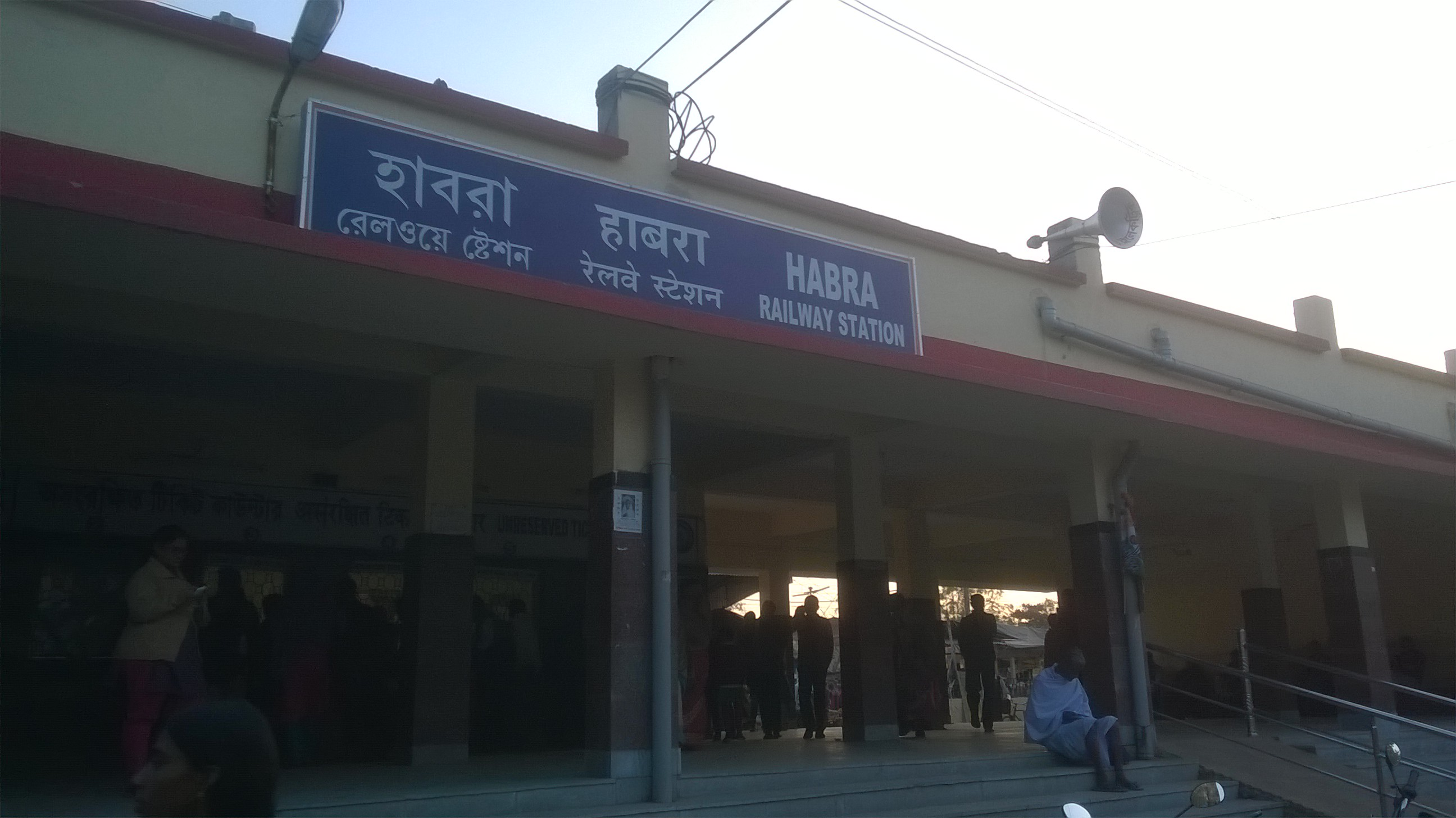 En:geatway of Habra station.